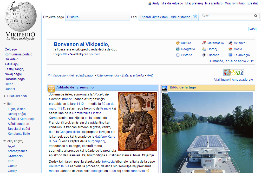 Wikipedia in esperanto (01-04-2012)